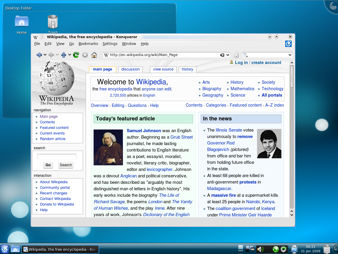 Konqueror showing the wikipedia homepage in KDE 4.2